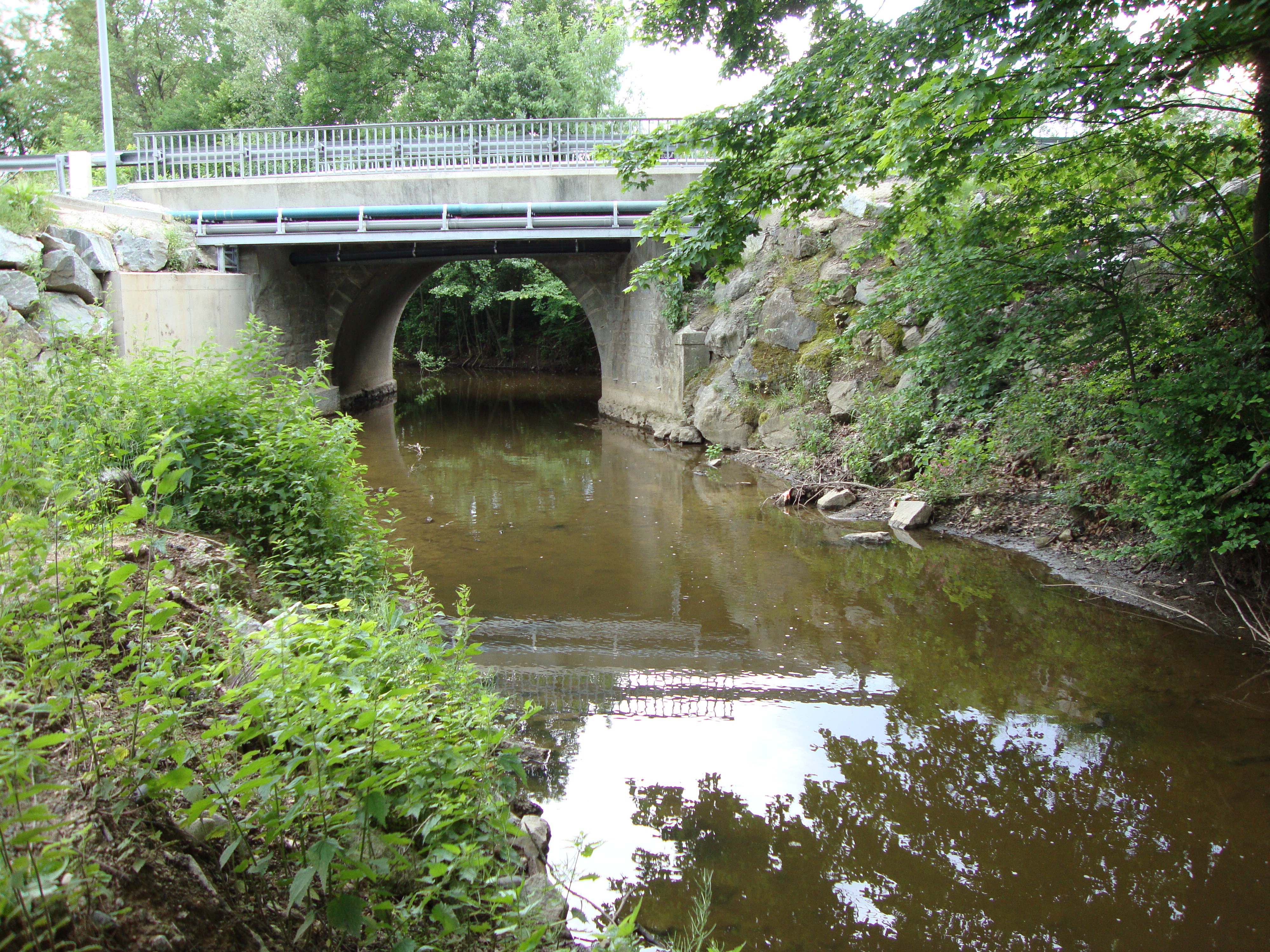 St.Laurent-la-Conche (Loire, Fr) bridge of the D 115 on the Toranche